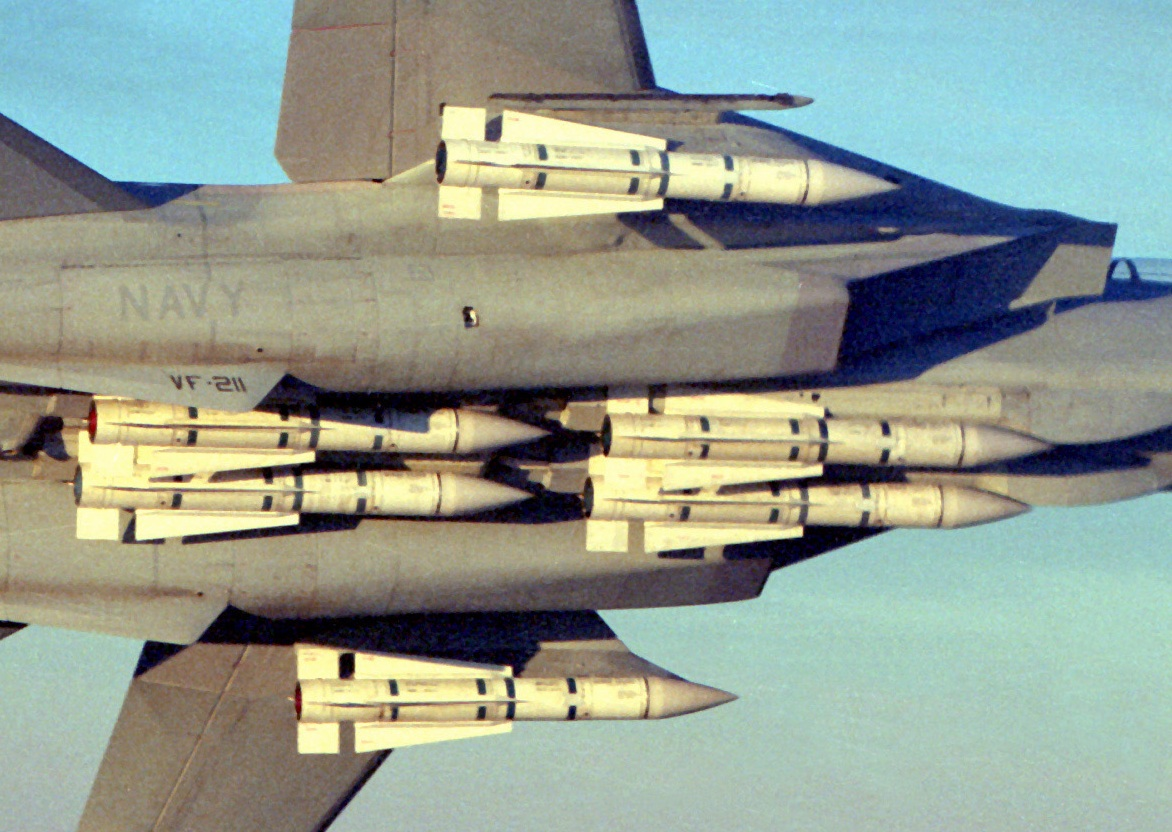 Full load of six AIM-54 Phoenix Missiles on an F-14A in flight. 1 January 1989. Cropped from official US Navy Photo DNSC9011927: "A Fighter Squadron 211 (VF-211) F-14A Tomcat aircraft banks into a turn during a flight out of Naval Air Station, Miramar, Calif. The aircraft is carrying six AIM-54 Phoenix missiles."